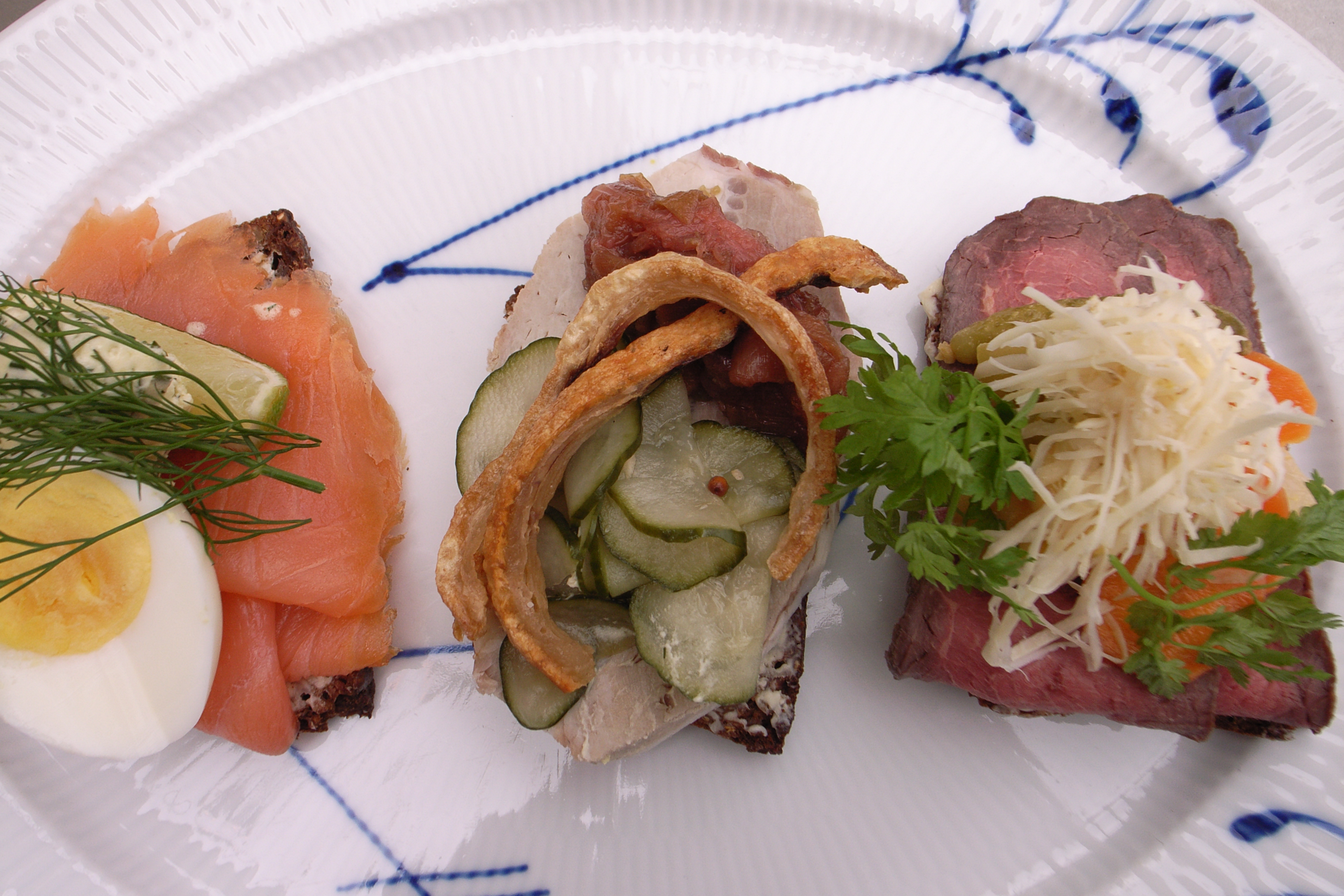 Frokost, Location: Copenhagen Cuisine: Denmark